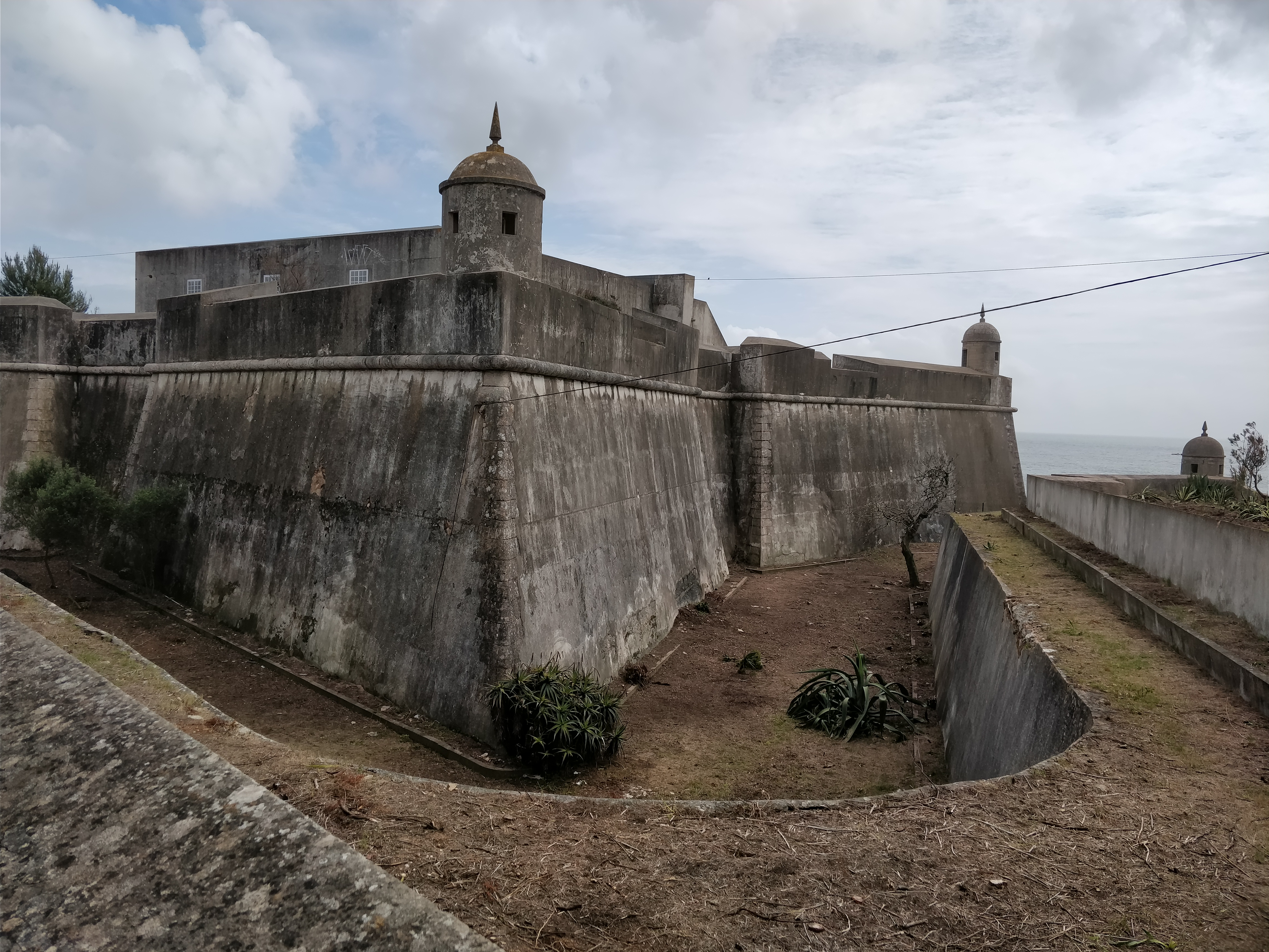 External view of St Anthony Fort, Estoril, Portugal, showing the moat